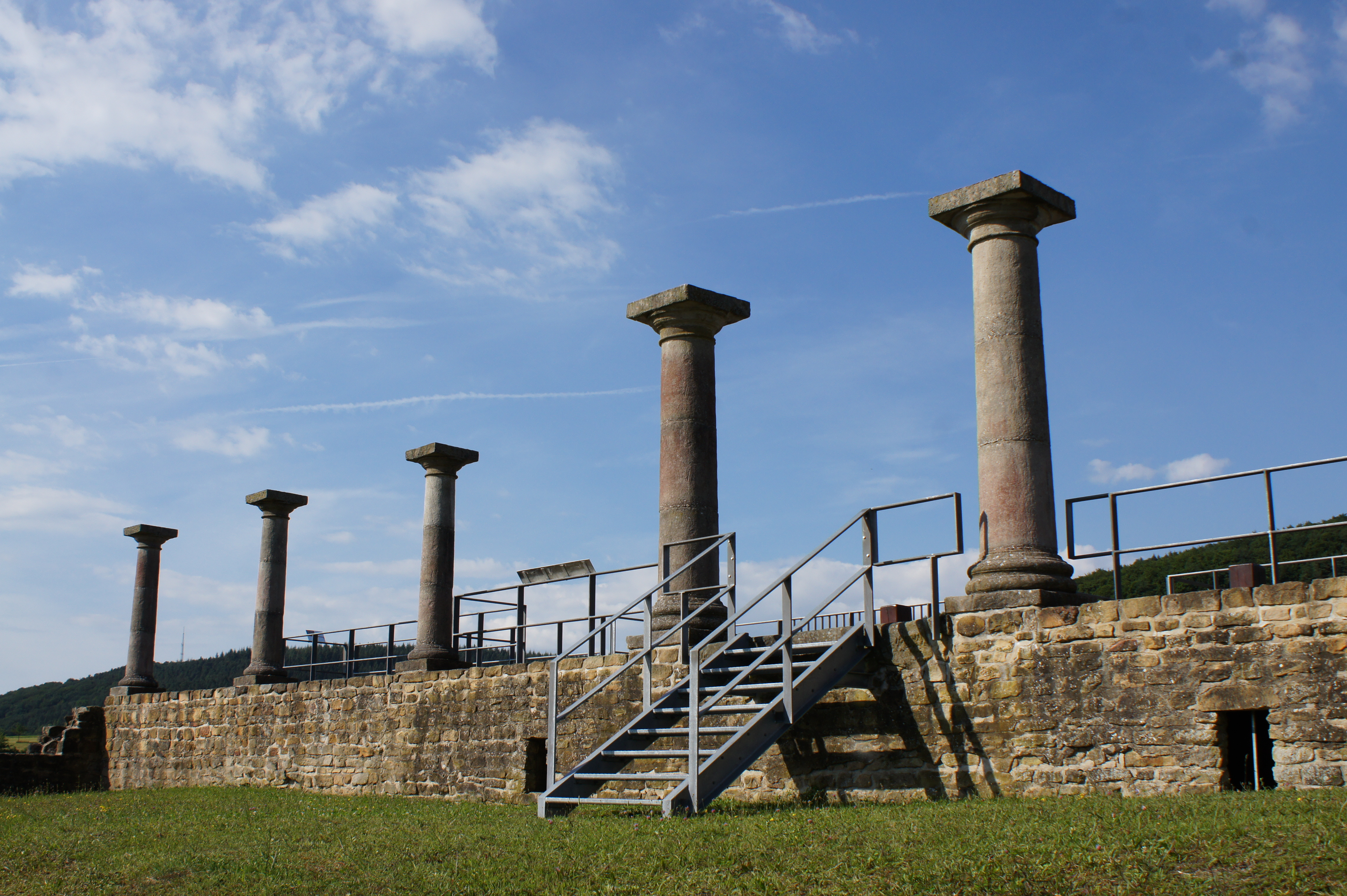 Roman Villa Holsthum, the reconstructed columns of the portico